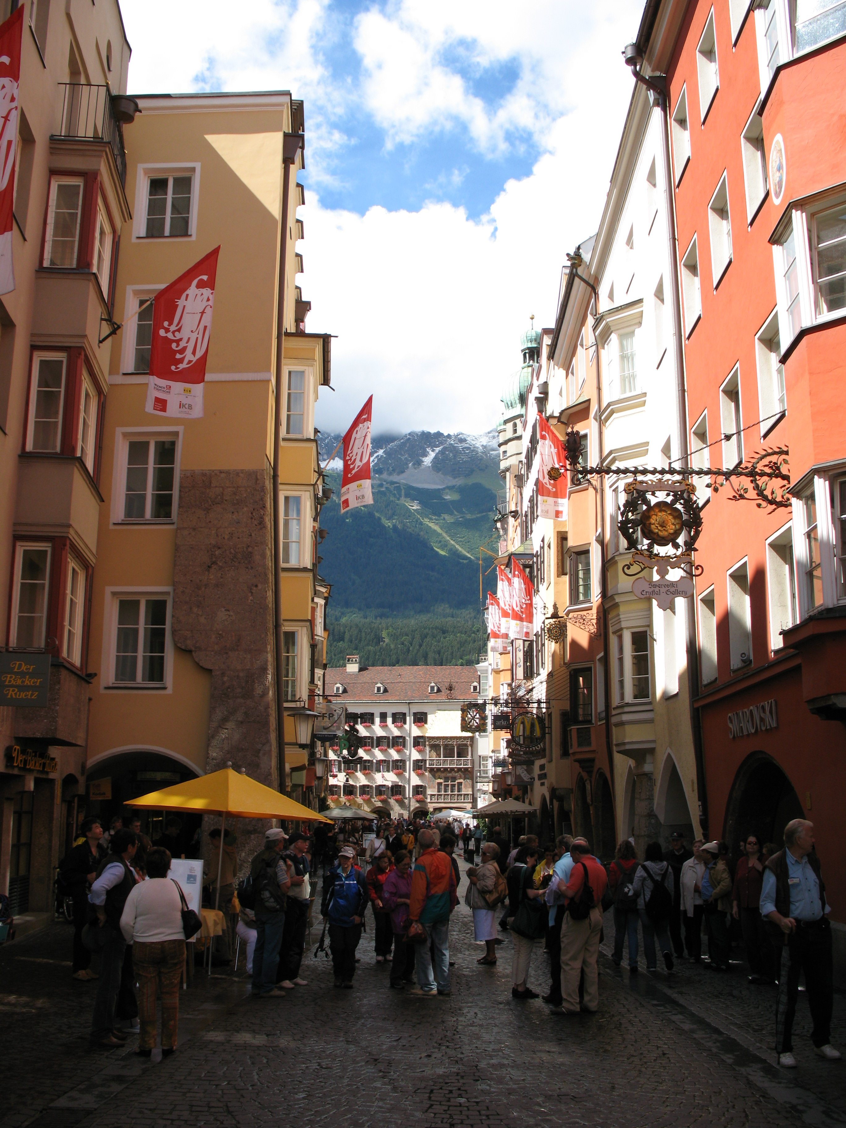 Herzog Friedrich Street, Innsbruck, Austria